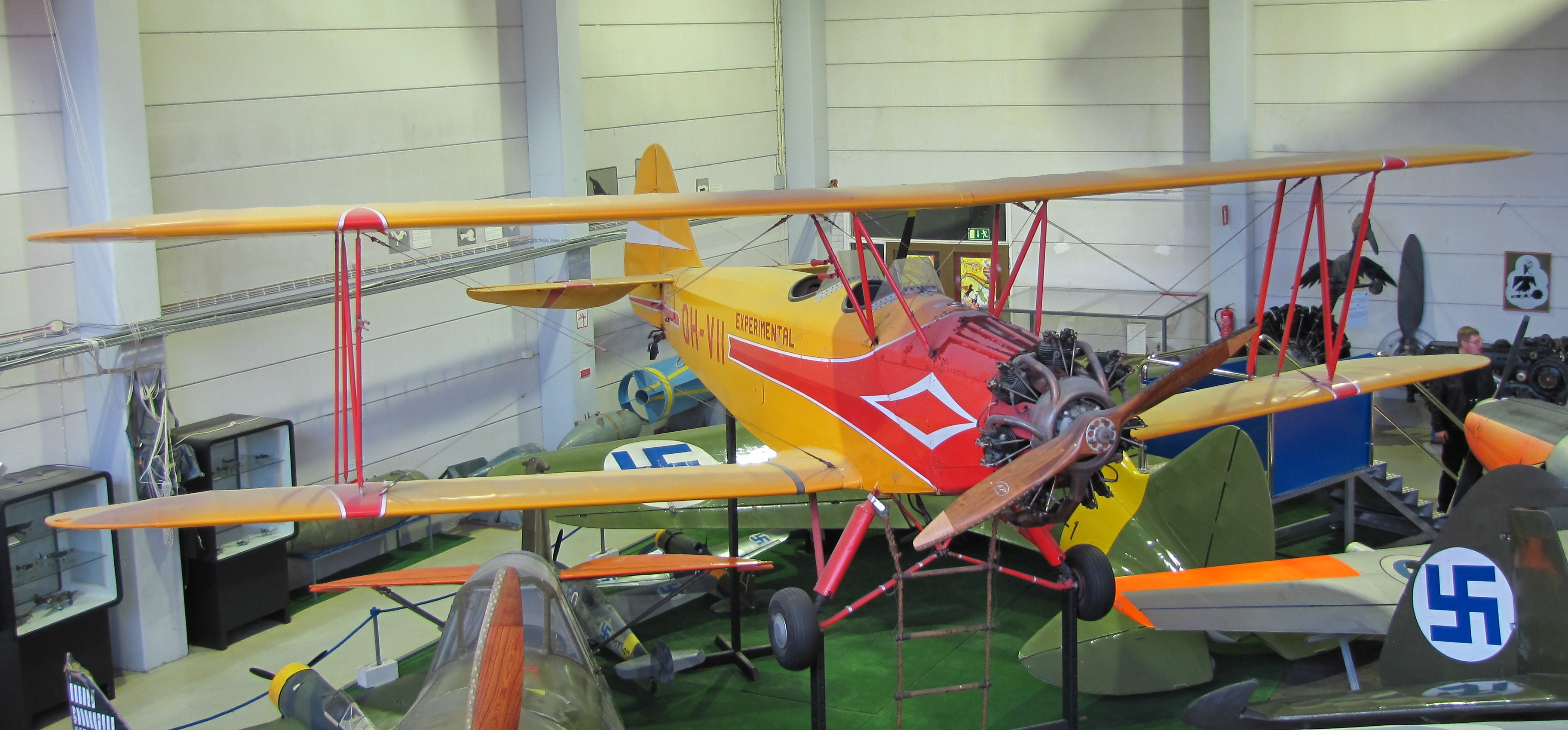 VL Viima II primary trainer in Finnish Aviation Museum. Civil registry OH-VII, former military VI-21.